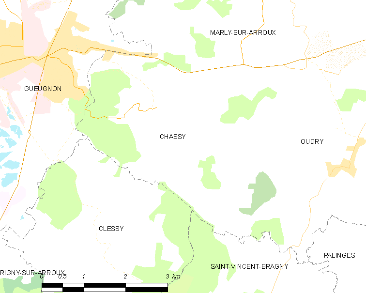 Map of French municipality